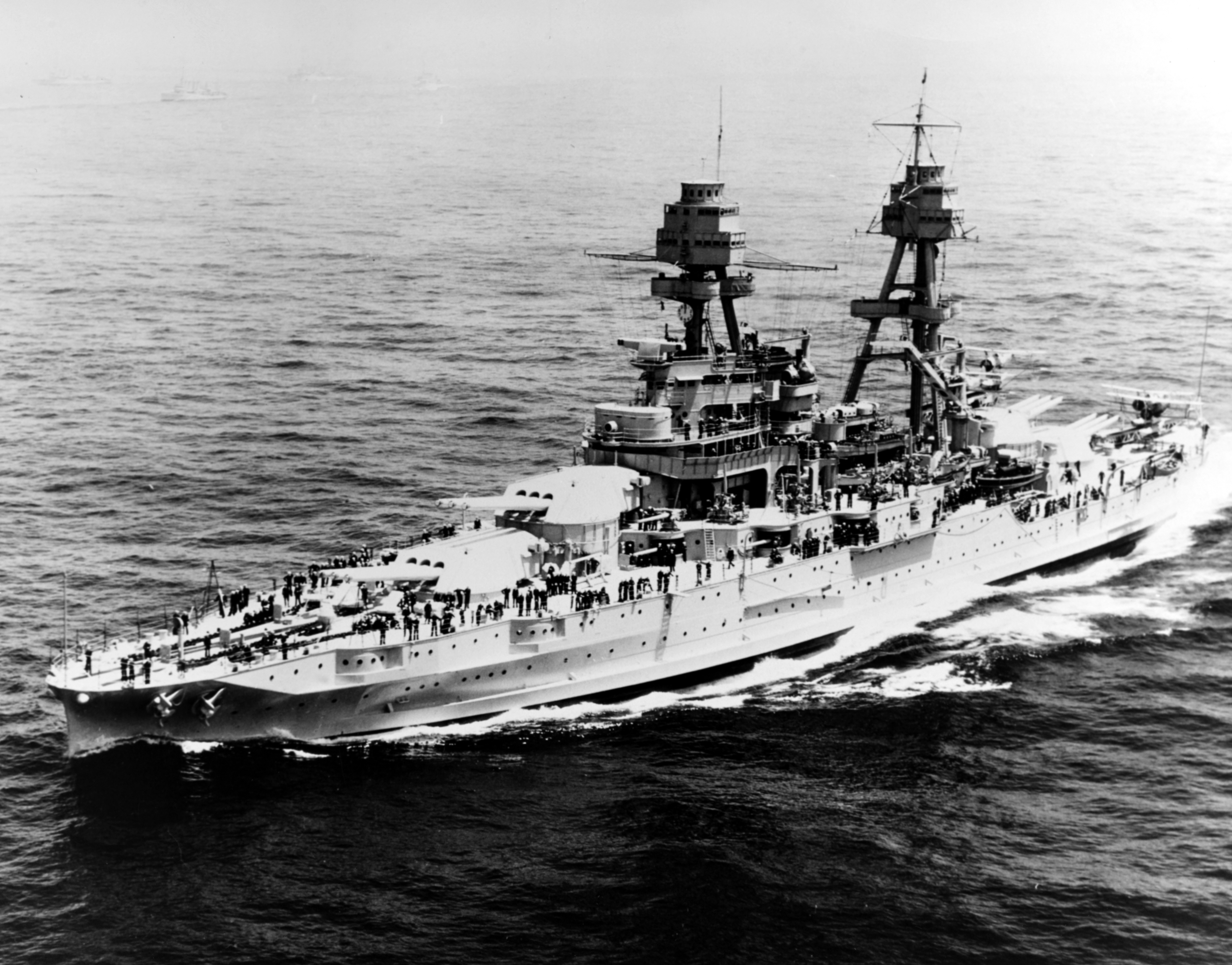 The U.S. Navy battleship USS Pennsylvania (BB-38) underway off New York City (USA) during the Naval Review before President Franklin D. Roosevelt, 31 May 1934. Pennsylvania was then serving as flagship of the Commander in Chief, U.S. Fleet, Admiral David F. Sellers, USN.